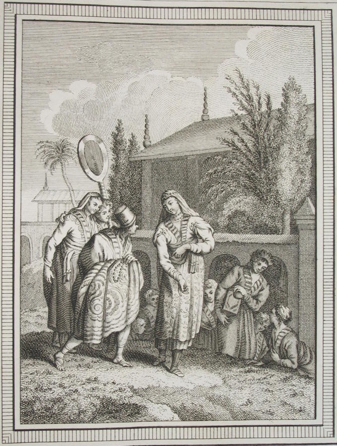 "Begam Sahib," Aurangzeb's older sister Jahan-ara-- who was loyal to her father and Dara Shikoh